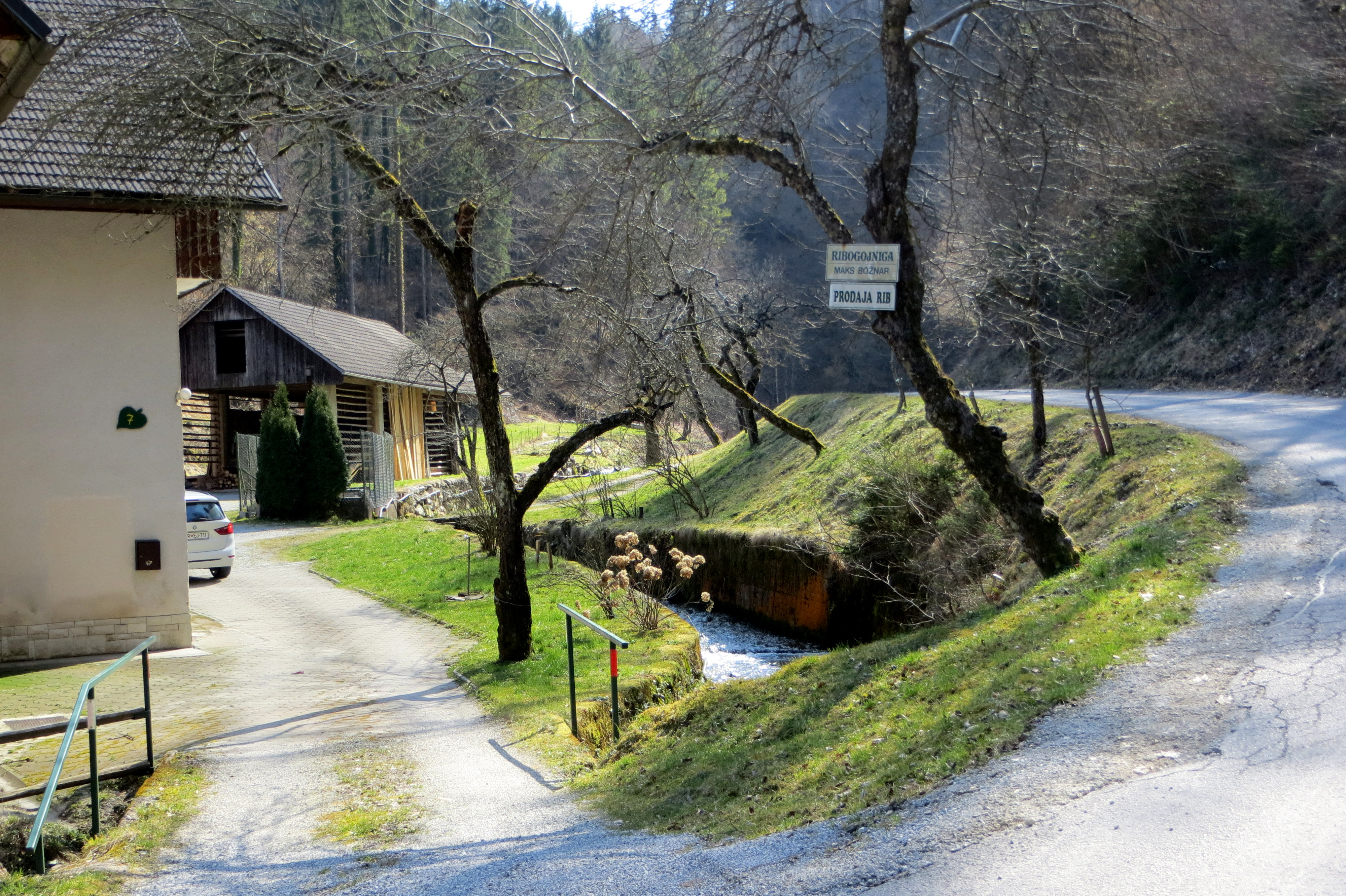 The hamlet of Drnovškov Mlin in Bukov Vrh, Municipality of Gorenja Vas–Poljane, Slovenia